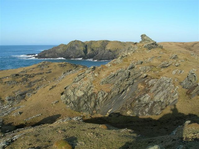 On Coul Point Part of Islay's spectacular Atlantic coastline, viewed on a glorious February afternoon.